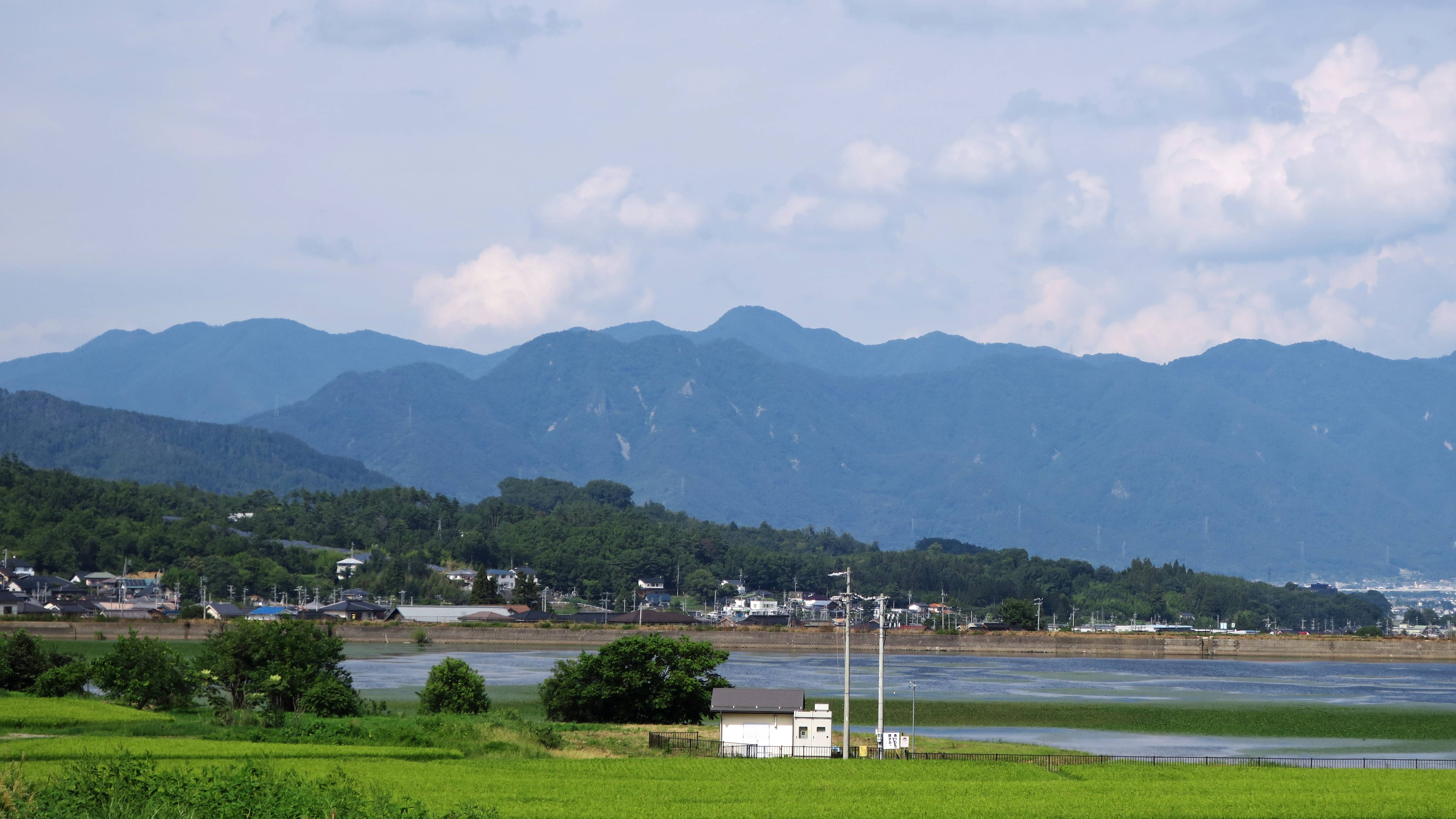 Yamada Pond (Ueda, Nagano).